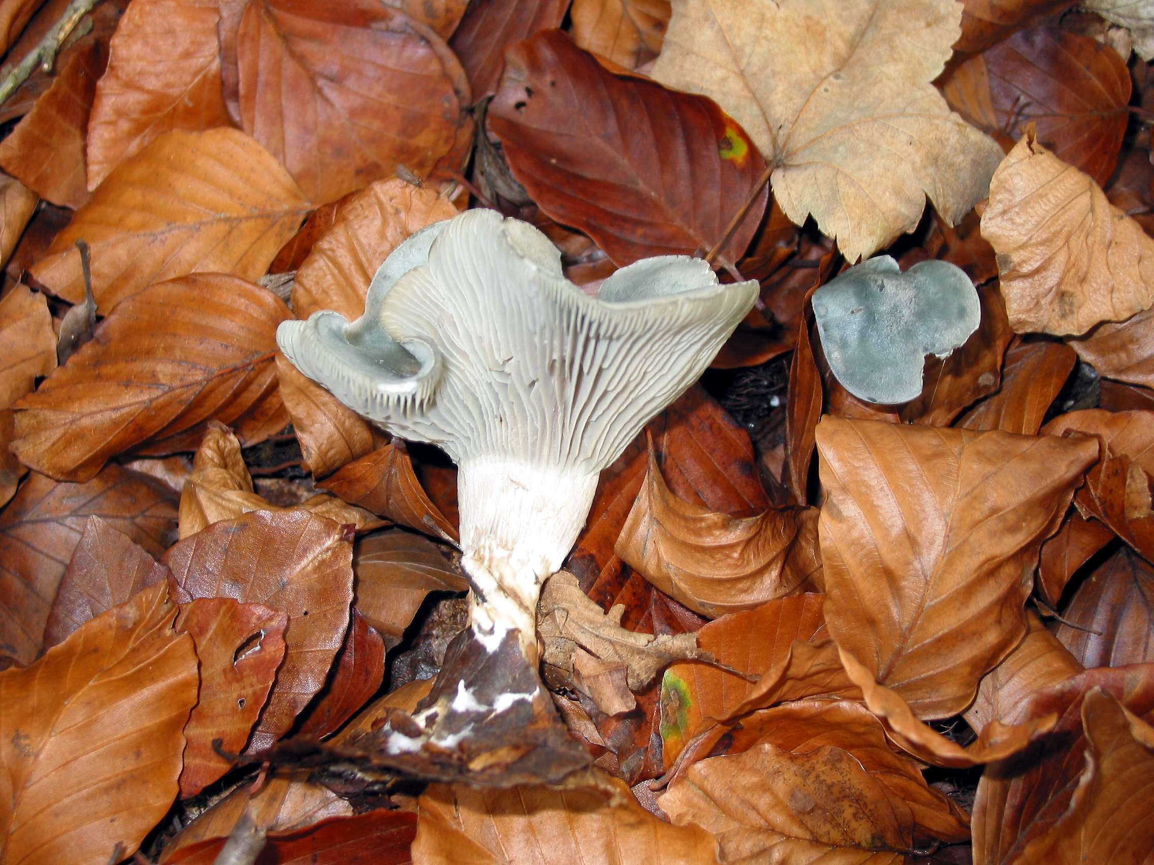 Aniseed funnel